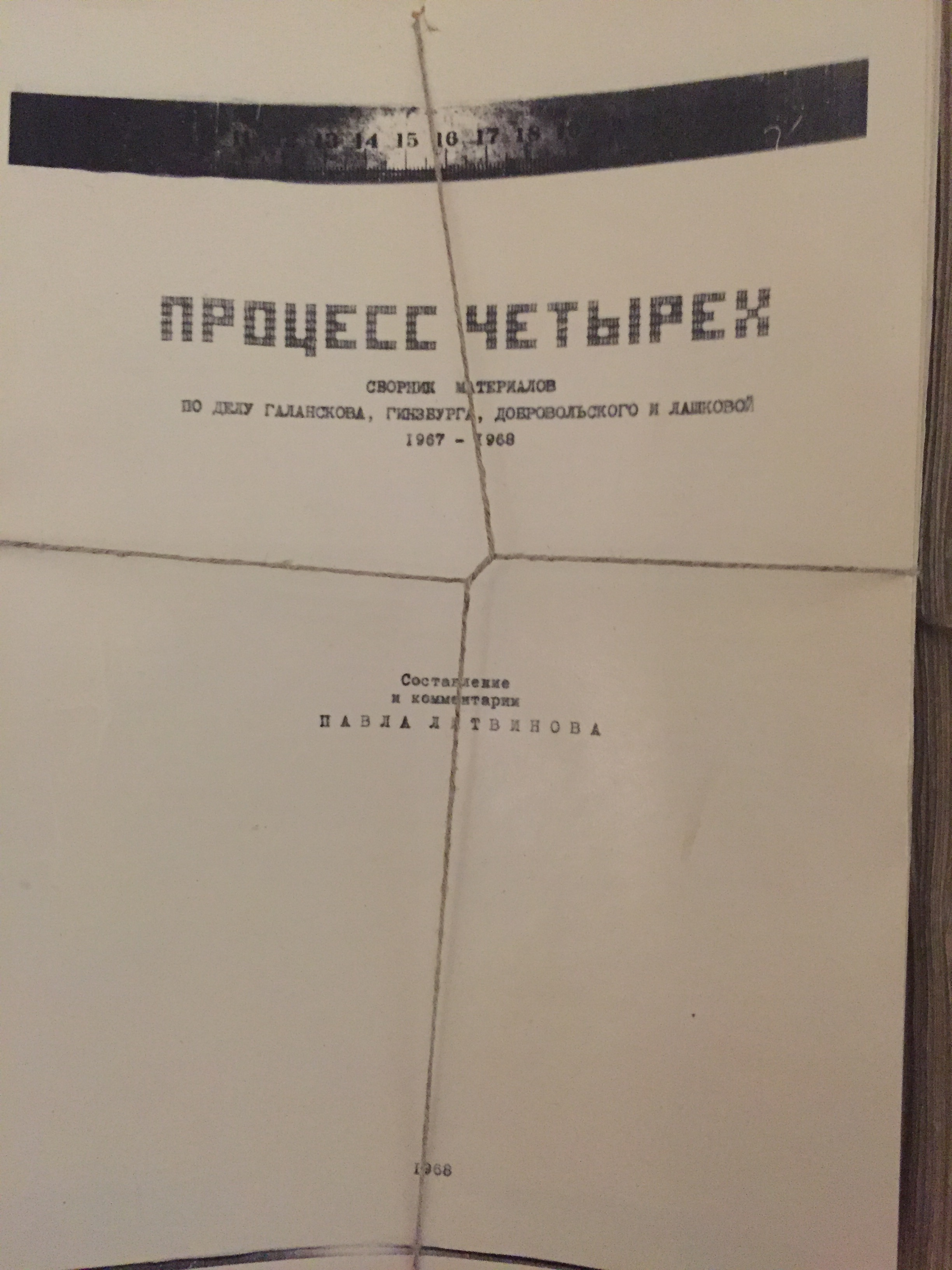 Typewritten samizdat copy of The Trial of the Four by Pavel Litvinov. 1968. Front cover. Moscow.